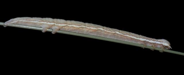 Callistege mi (=Eulidia mi), caterpillar. Location: Nationaal Park de Meinweg - Elfenmeer (the Netherlands)